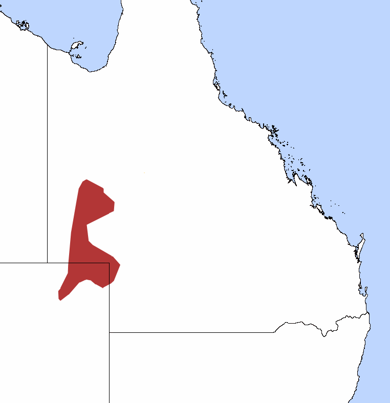 The Kowari's Distrobution.